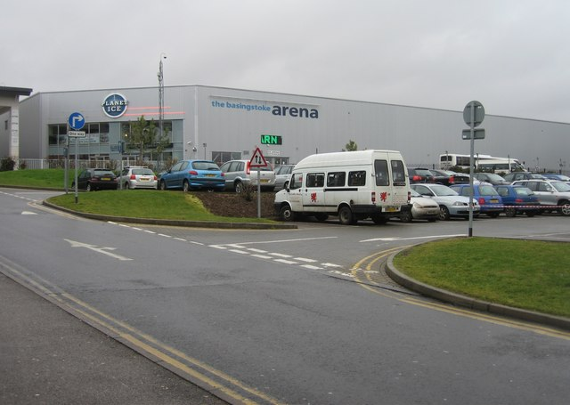 The Basingstoke Arena Home to the ice hockey team 'Basingstoke Bison'. Not currently doing very well but at least they are in the elite league.